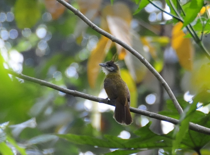 White-throated Bulbul (Alophoixus flaveolus). Shatchari, Sylhet.